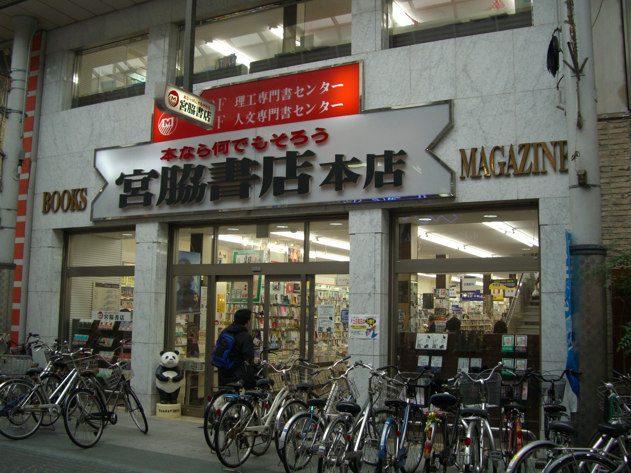 Miyawaki primary book store at Takamatsu, Kagawa, Japan